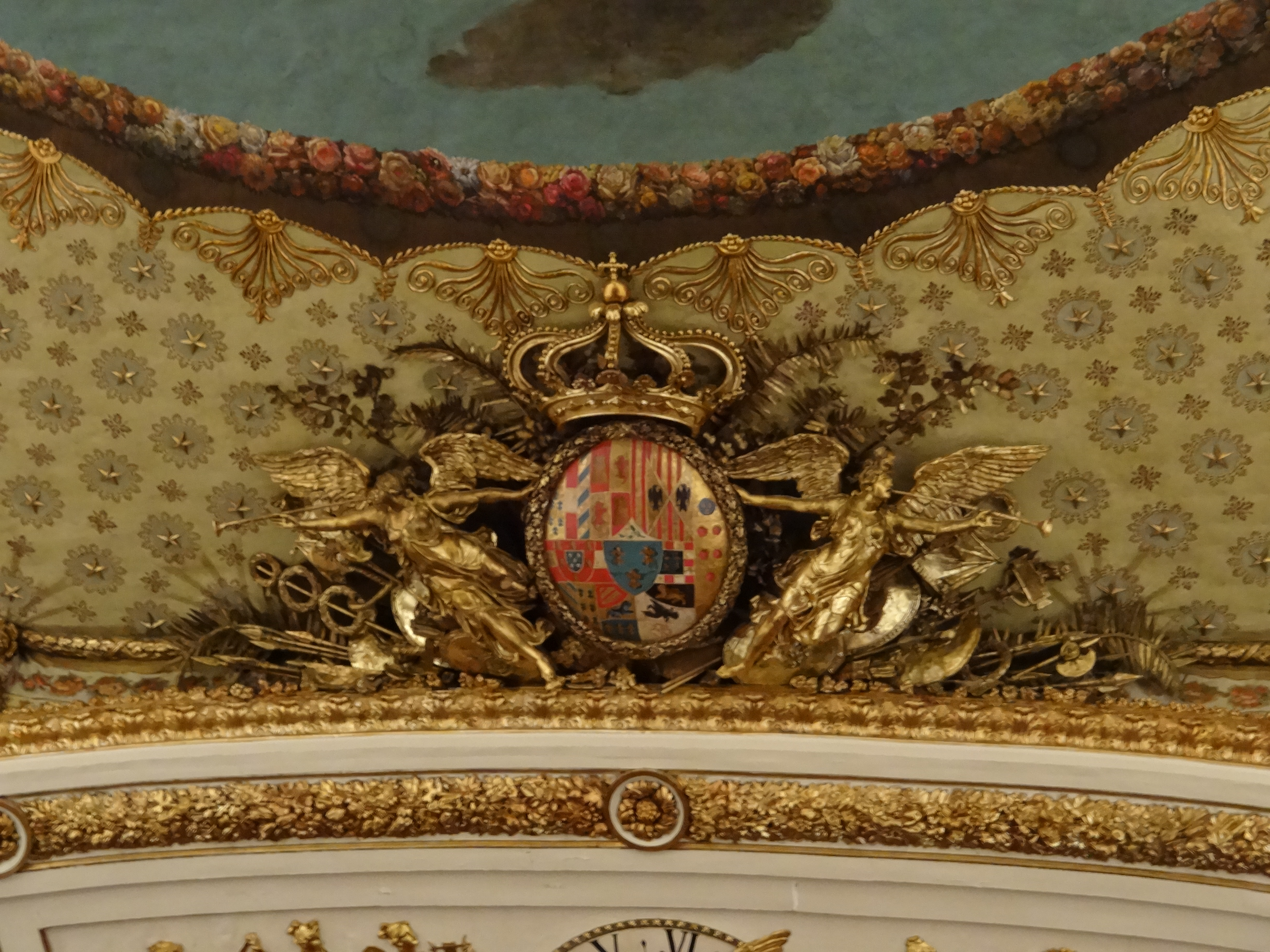 Teatro San Carlo-coat of arms above procenium